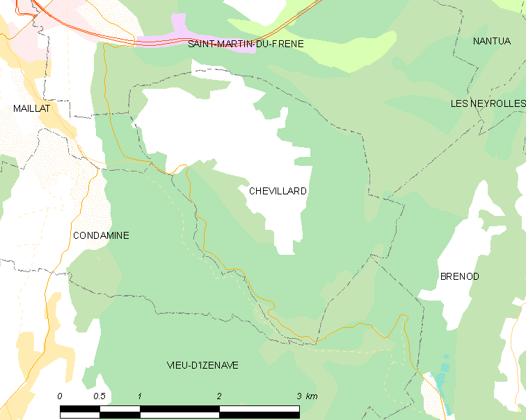 Map of French commune: Chevillard Map commune FR insee code 01101.png